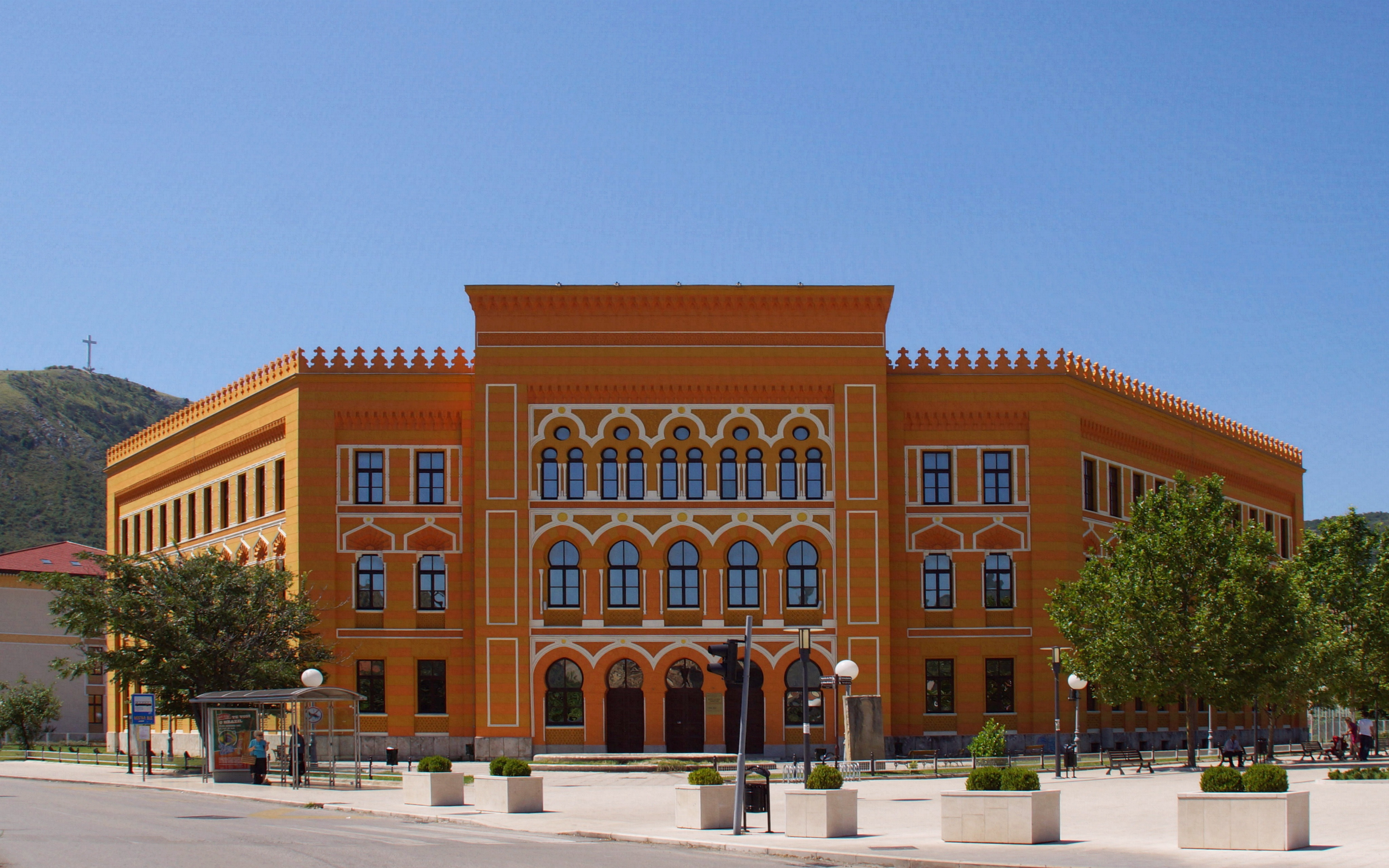 Gimnazija Mostar damaged Bosnia-War, renovated up to 2009. United World College